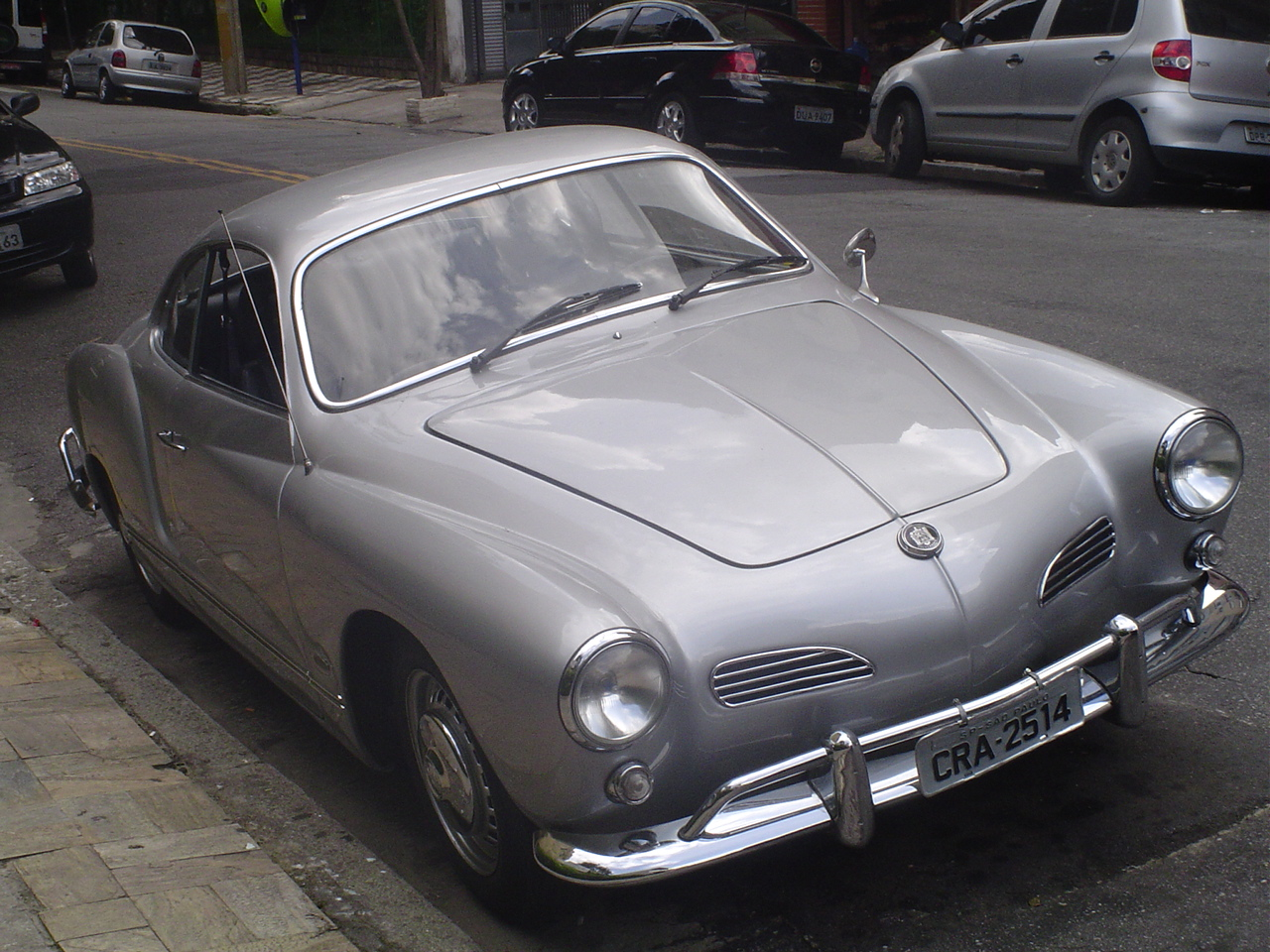 Brazilian-made Volkswagen Karmann Ghia in a street of the neighborhood of Bela Vista, São Paulo City, Brazil.